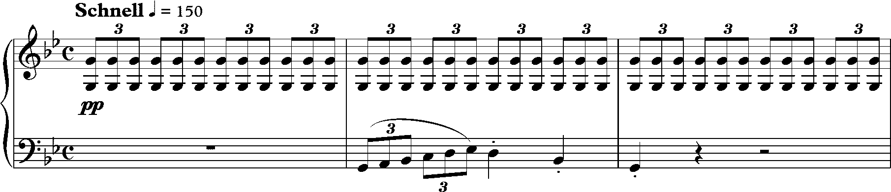 Schubert, Erl King, piano introduction